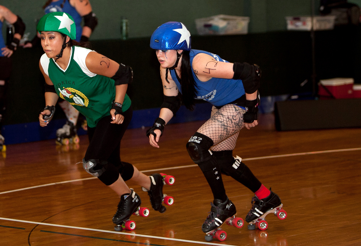 Two roller derby jammers (of the Rainy City Rollers and Chica Chula of the Oly Rollers, respectively) at their starting position.